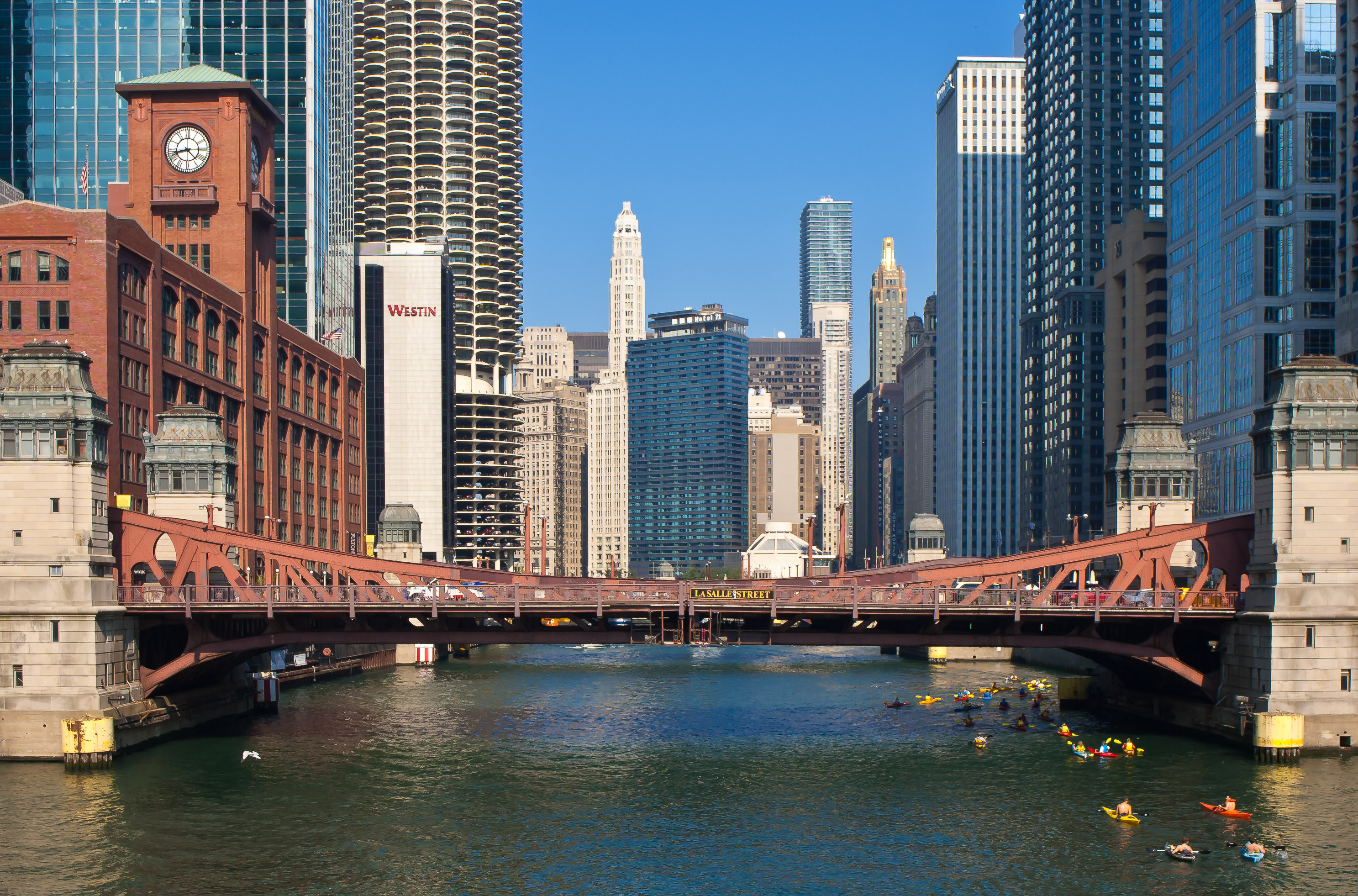 LaSalle Street bridge across the Chicago River in Chicago, Illinois